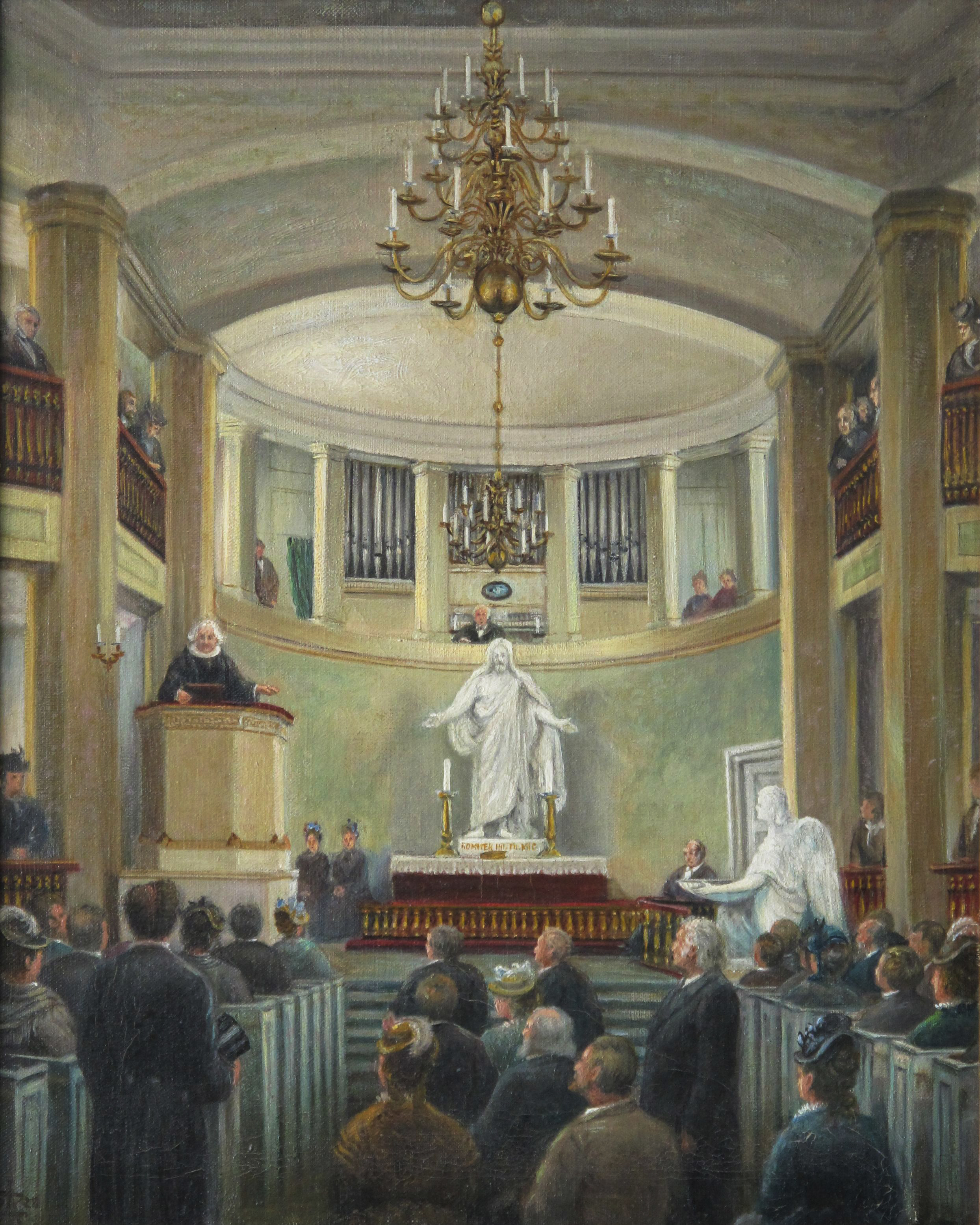 A painting motif Trefoldighetskirken in Arendal ca. 1870